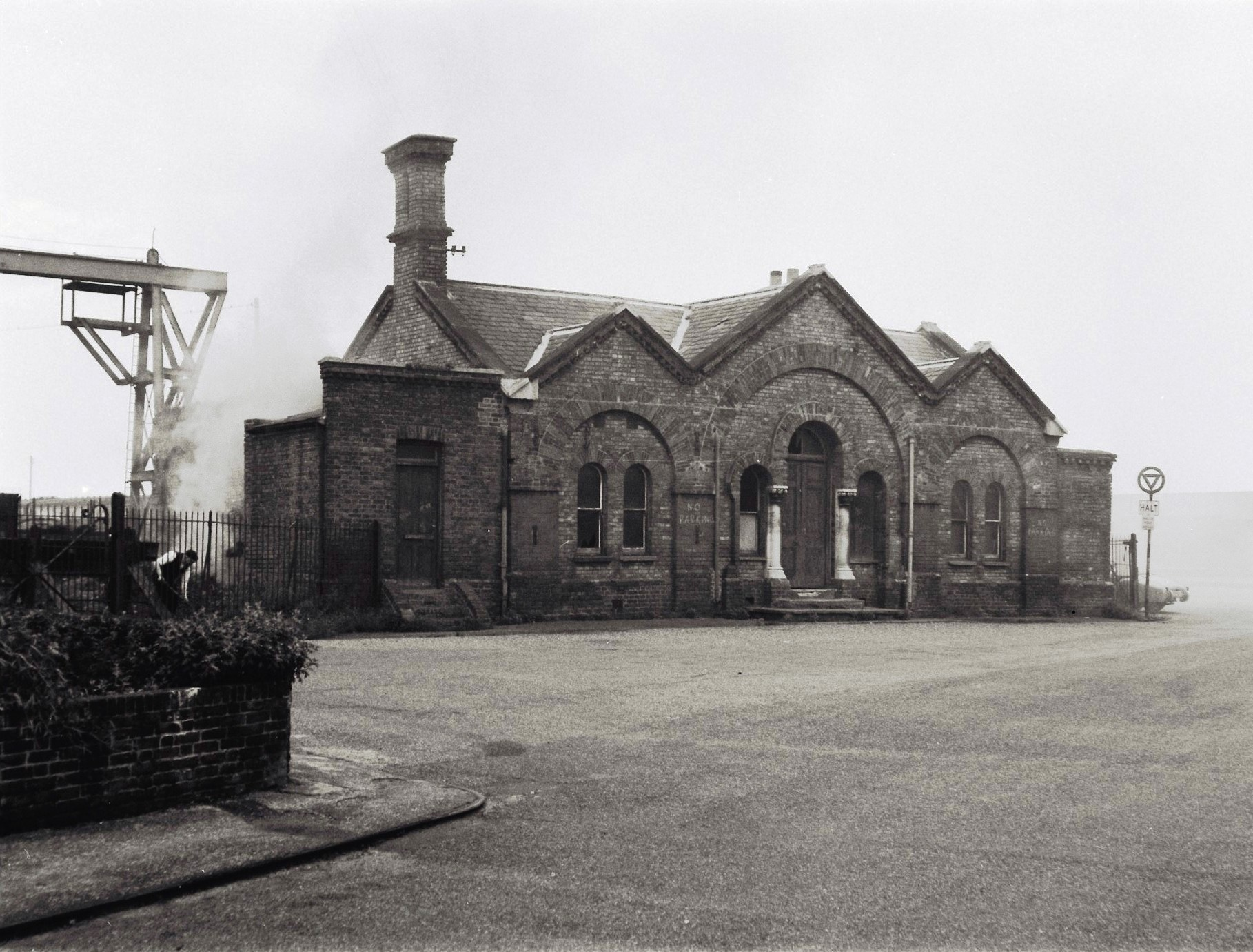 Original terminal building at Sheerness Dockyard station.